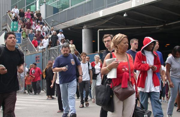 Passengers emerging from the Staten Island Ferry terminal in South Ferry in Manhattan